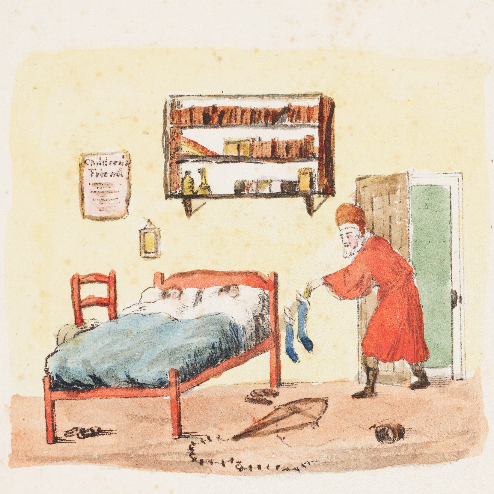 Illustration to verse 3 of the children's poem Old Santeclaus with Much Delight